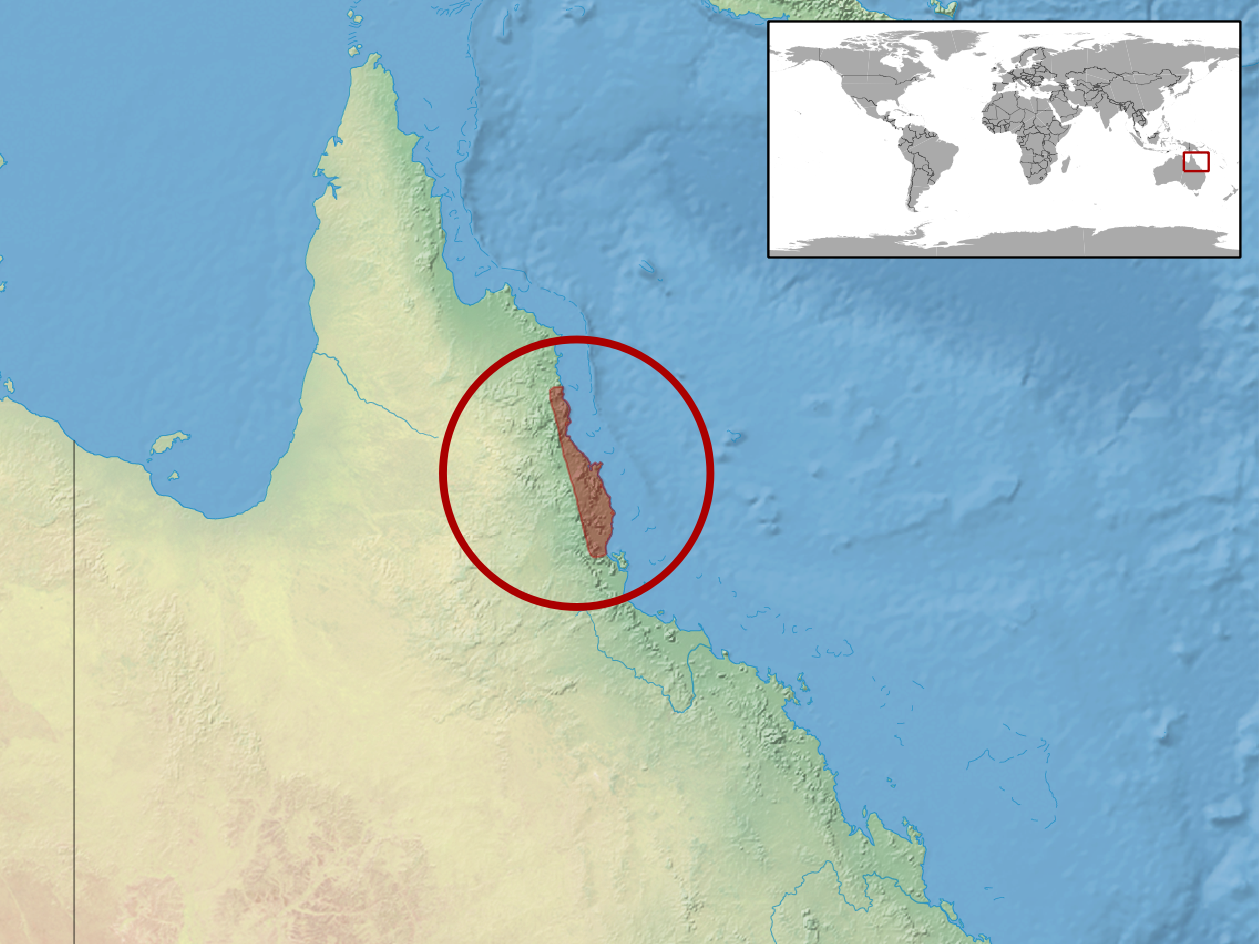 geographic distribution of Saproscincus czechurai